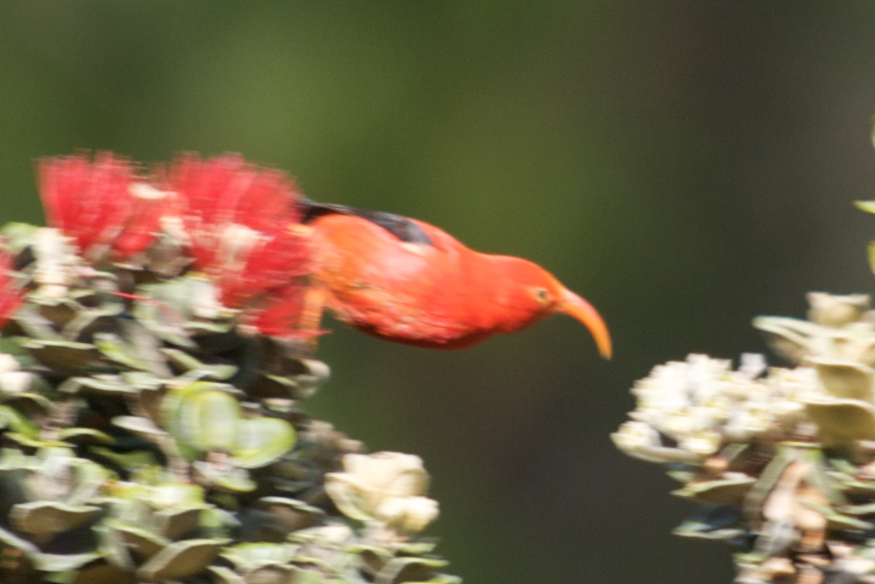 'i'iwi taking off from the ohia tree a few feet from the bird lookout point on the Hosmer Grove trail.